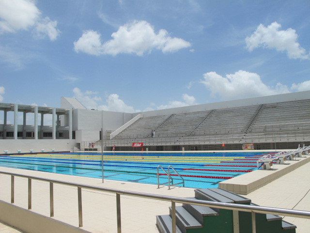 foto taken by me of Natatorio RUM